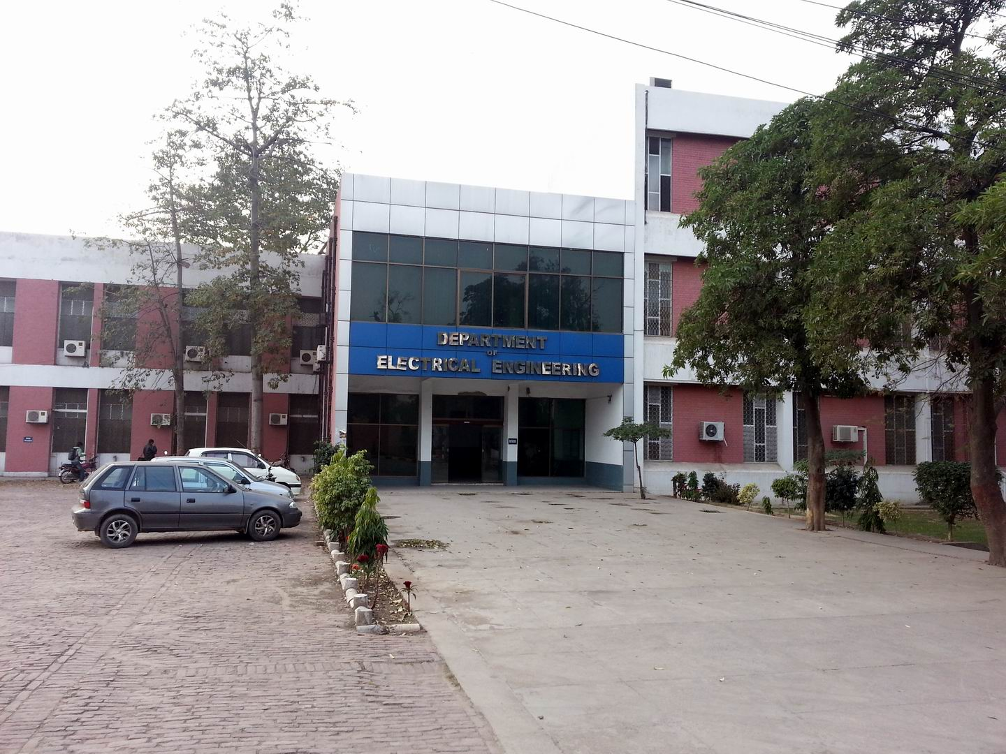 UET Department of Electrical Engineering